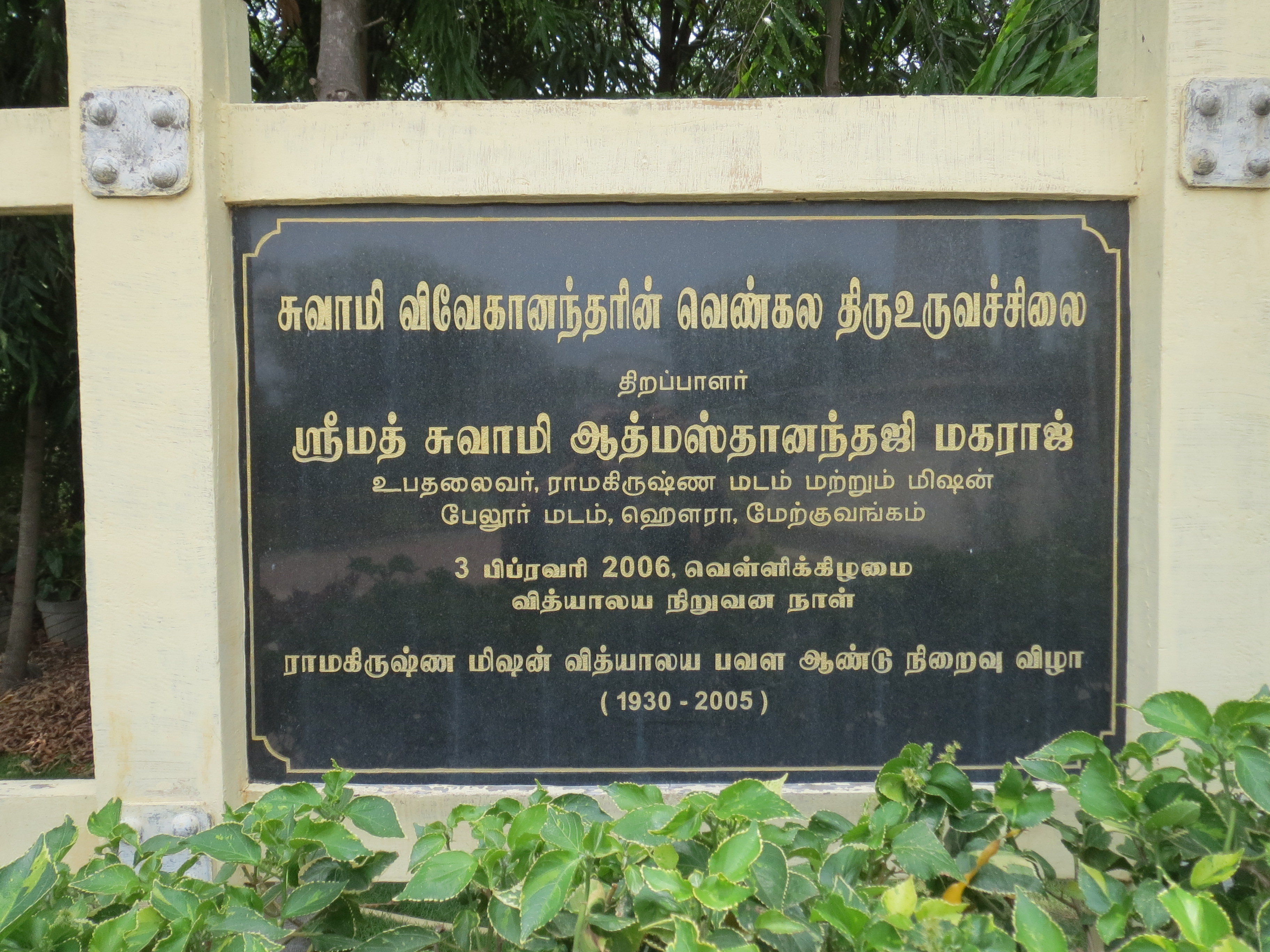 Information board at Vivekanandha park in Coimbatore, Tamil nadu.